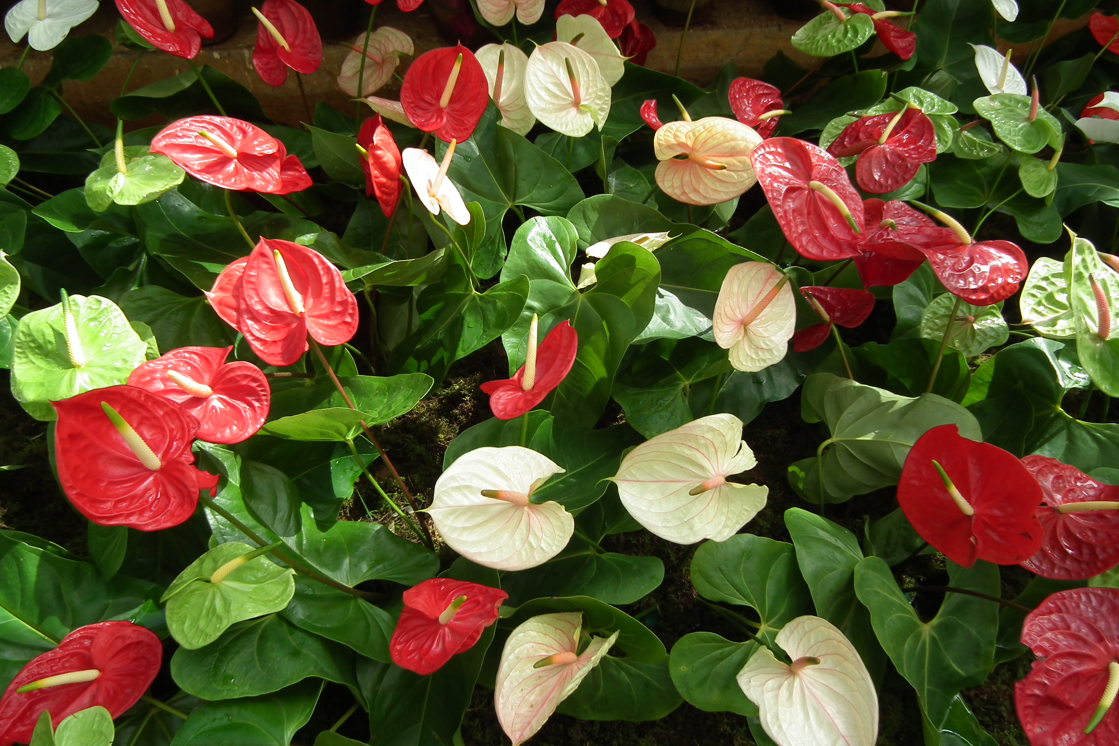 Anthurium from Lalbagh Garden, Bangalore, INDIA during the Annual flower show in August 2011. Anthurium is a large genus of about 600–800 (possibly 1,000) species, belonging to the arum family (Araceae). Anthurium can also be called "Flamingo Flower" or "Boy Flower", both referring to the structure of the spathe and spadix.